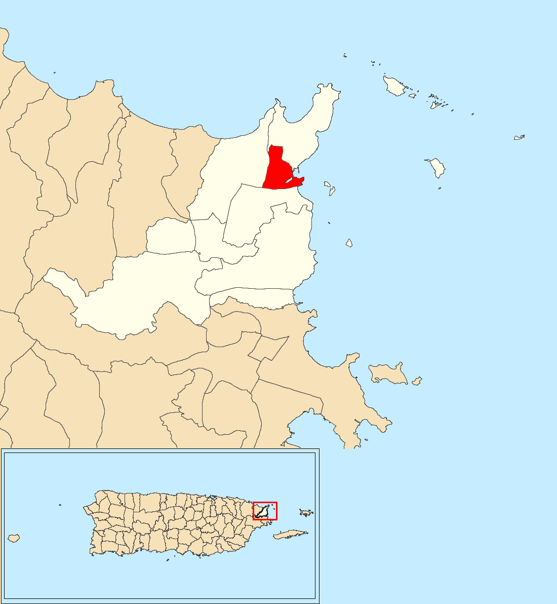 Sardinera, Fajardo, Puerto Rico locator map